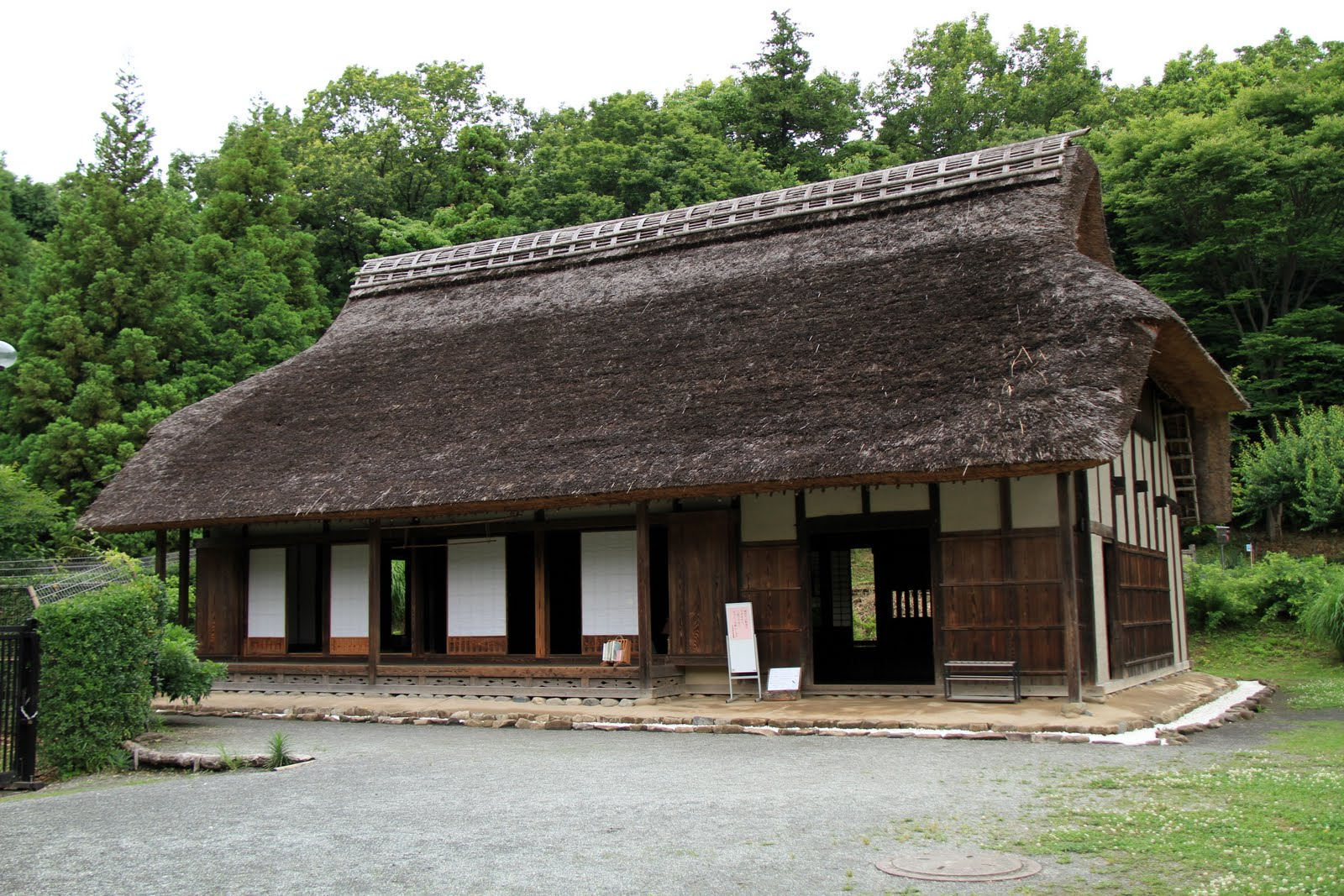 A restored farmhouse in Izuminomori Park.